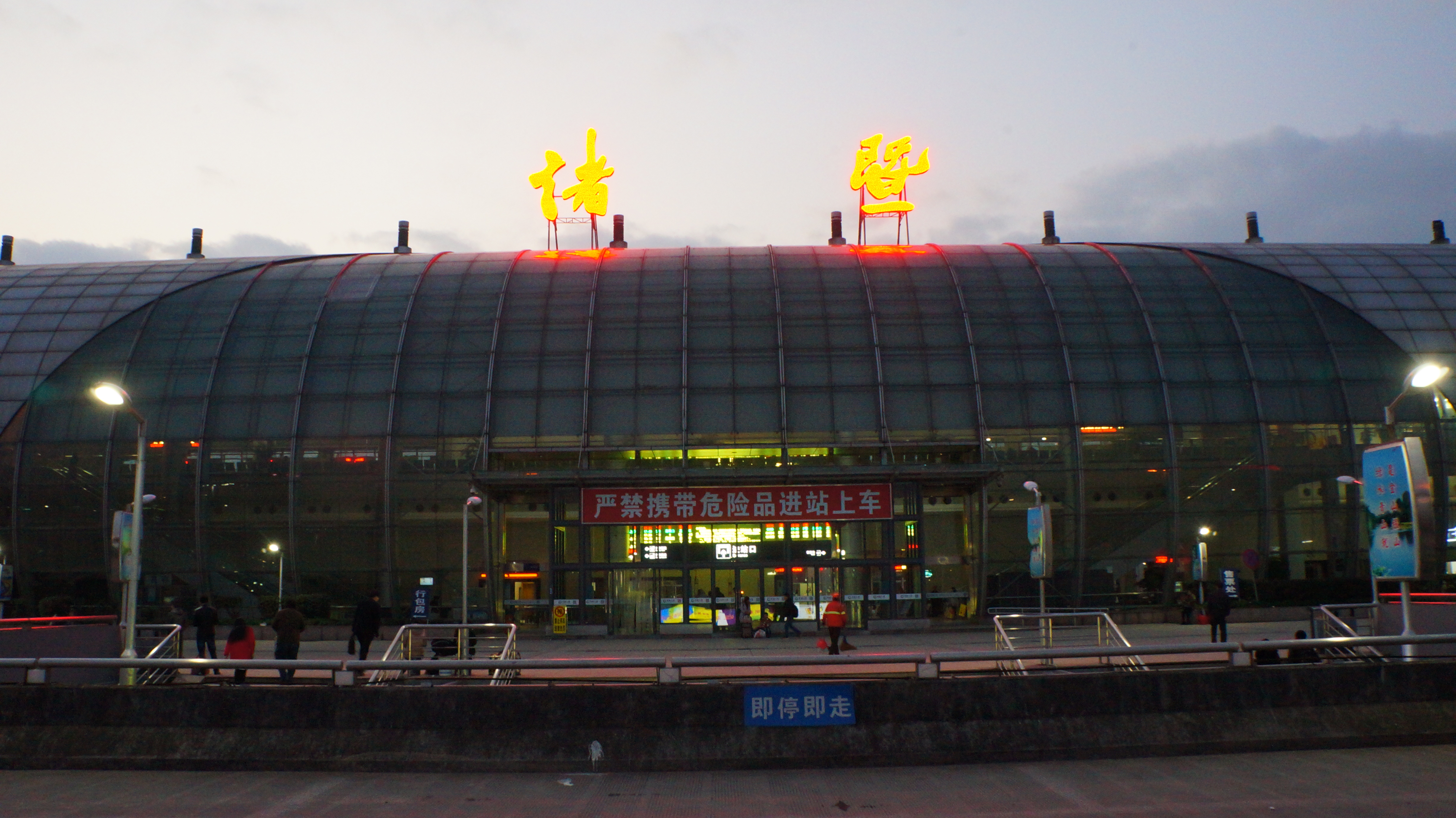 201601 Facade of Zhuji Railway Station